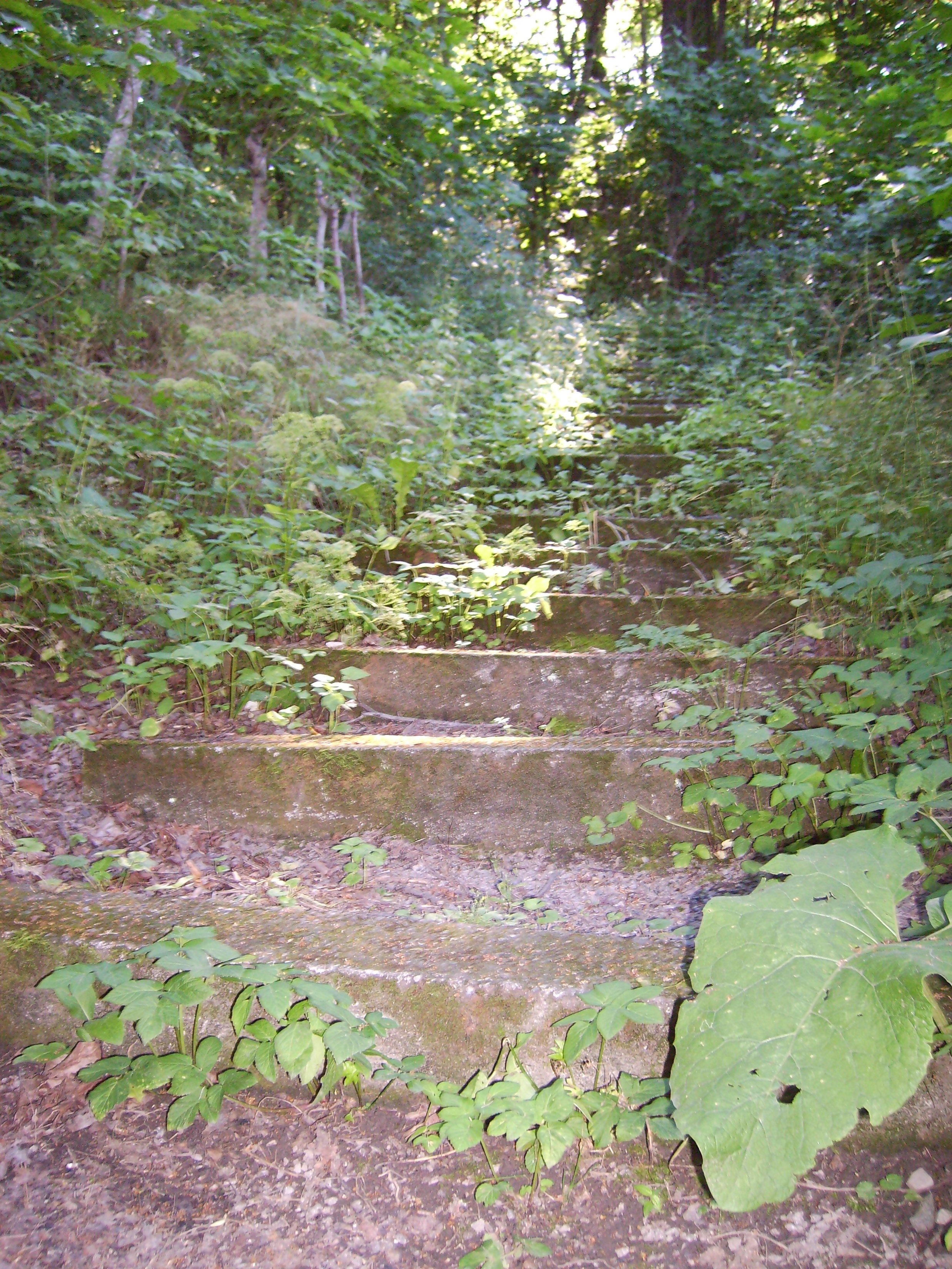 The writer "Moa Martinsson trappa" in Norrköping, Sweden.